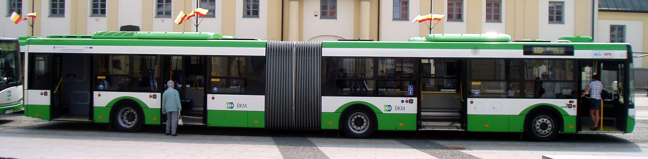 Solaris Urbino 18 bus (#465, reg. BI 3534L) in Białystok, Poland. Built 2011, KPK Białystok operator.